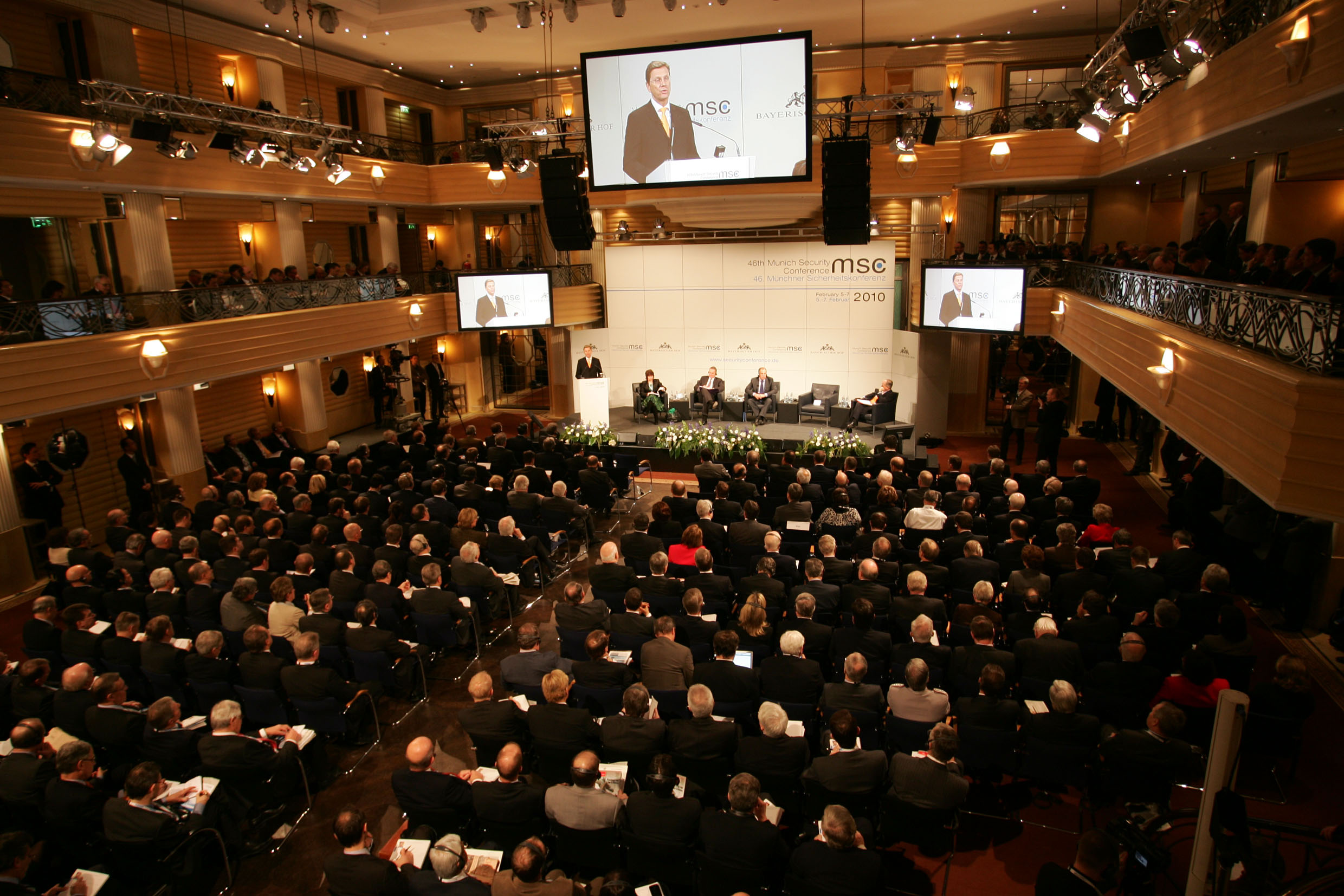 46th Munich Security Conference 2010: View into the conference hall.